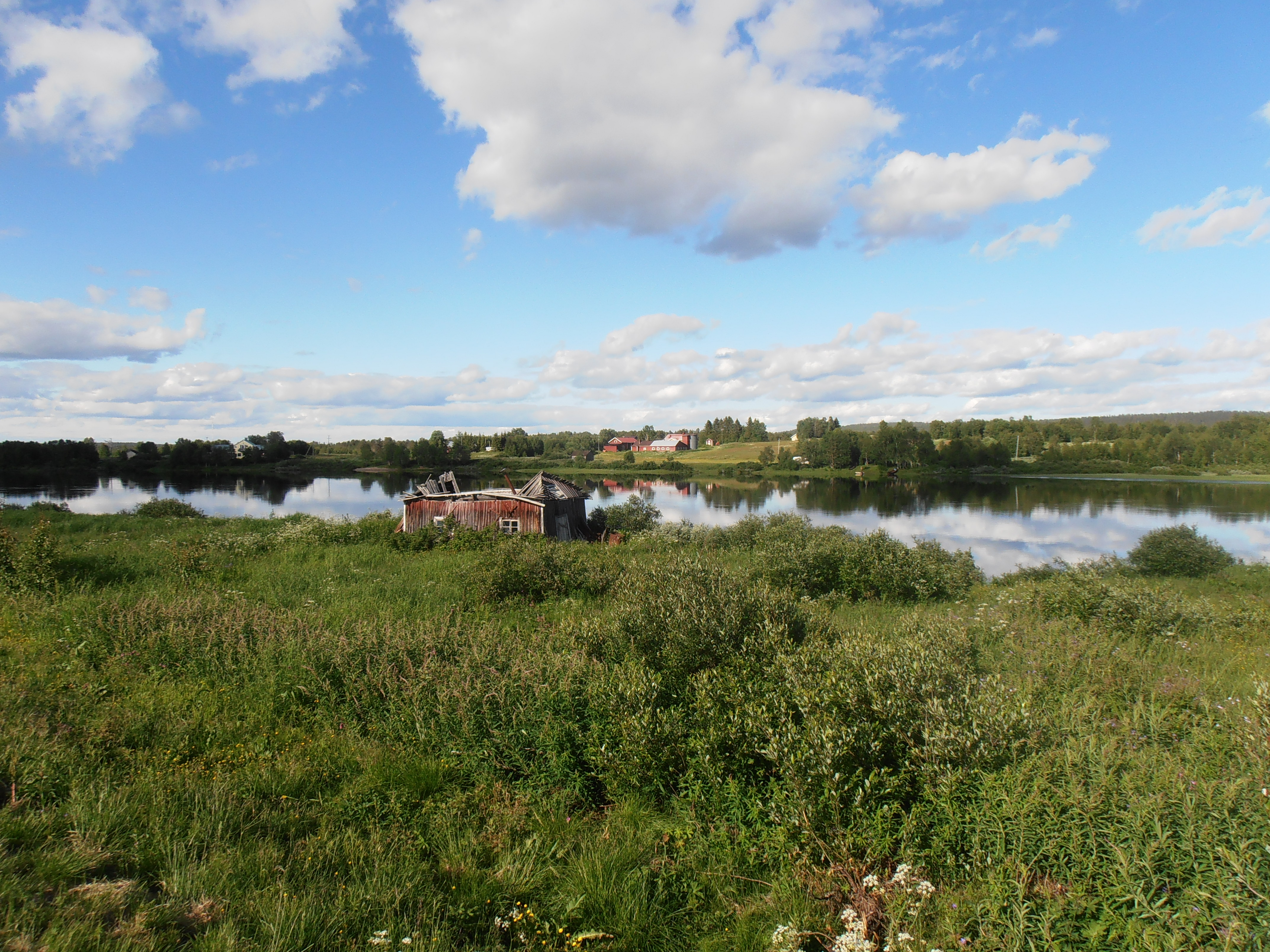 The Finnish village Kätkesuvanto seen from the Swedish village Kätkesuando in Pajala municipality